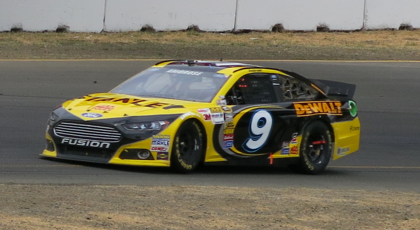 Marcos Ambrose's No. 9 Stanley Tools/DeWalt Ford at Sonoma Raceway in 2013